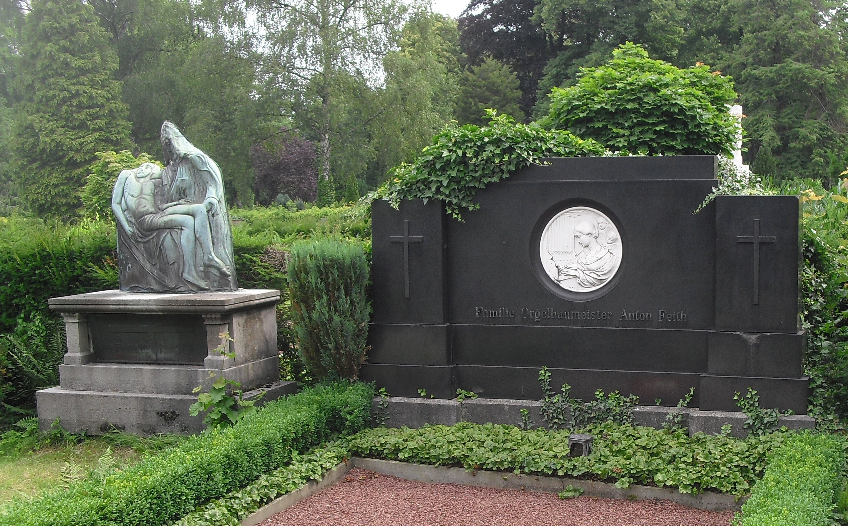 Grabmal Familie Orgelbaumeister Anton Feith auf dem Ostfriedhof in Paderborn